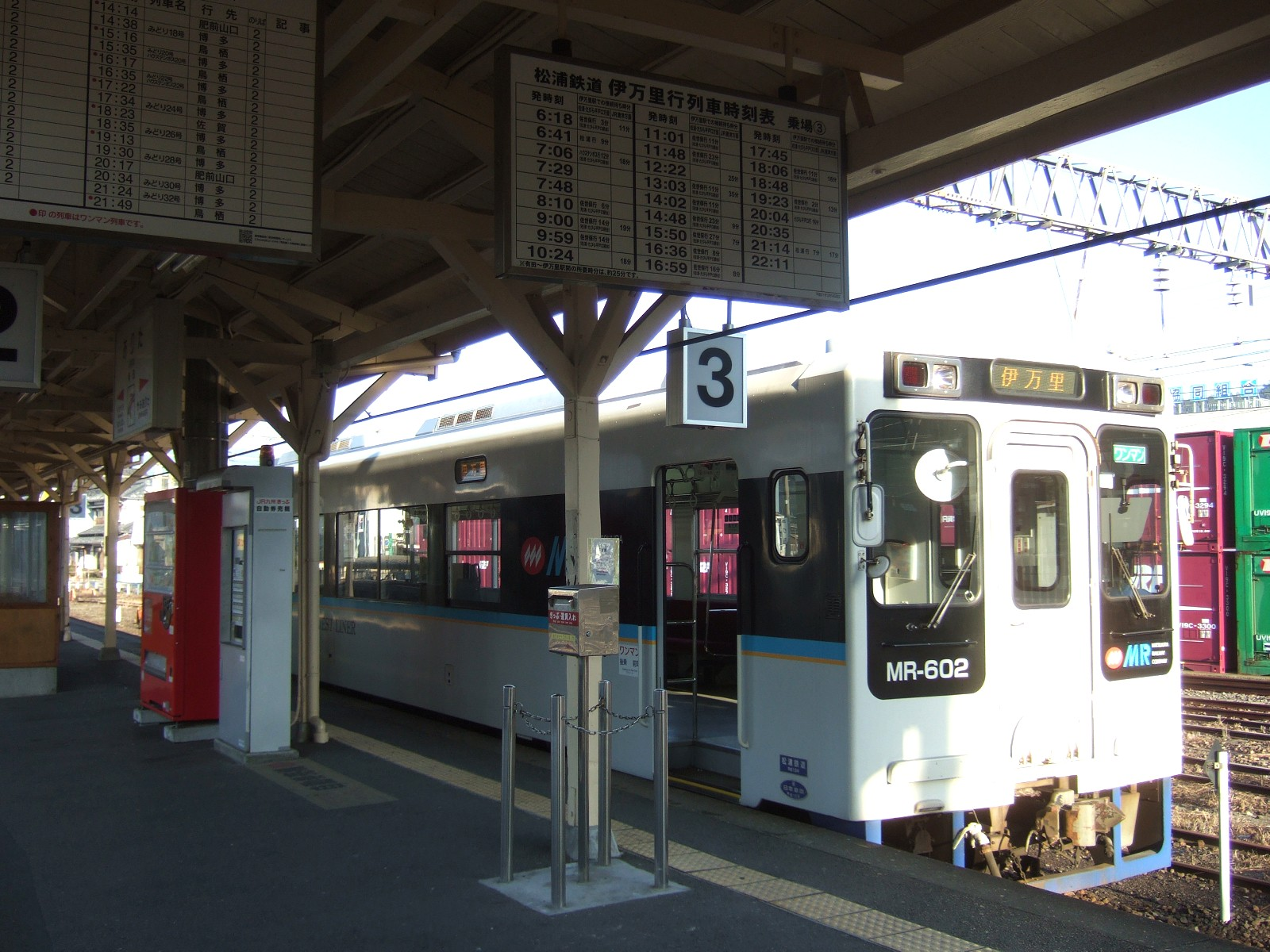 Arita Station platform #3